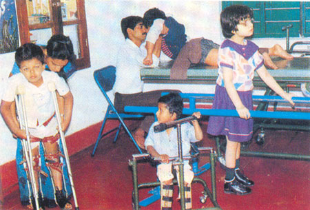 Children at a Seva Bharati-center for differently abled in Aruna Chetana, Bangalore